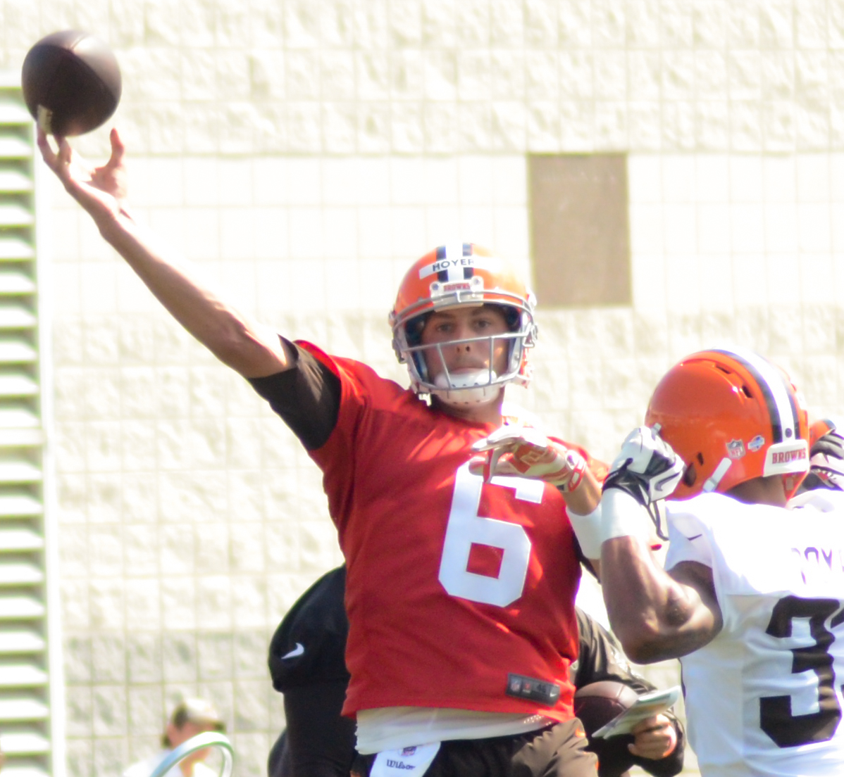 Quarterback Brian Hoyer during 2014 Cleveland Browns training camp